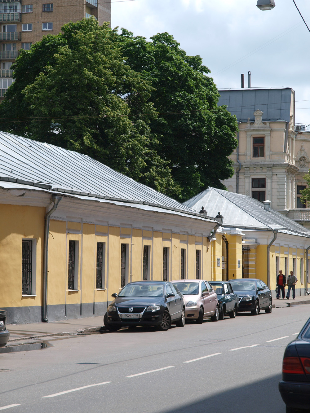 Povarskaya Street, Moscow.